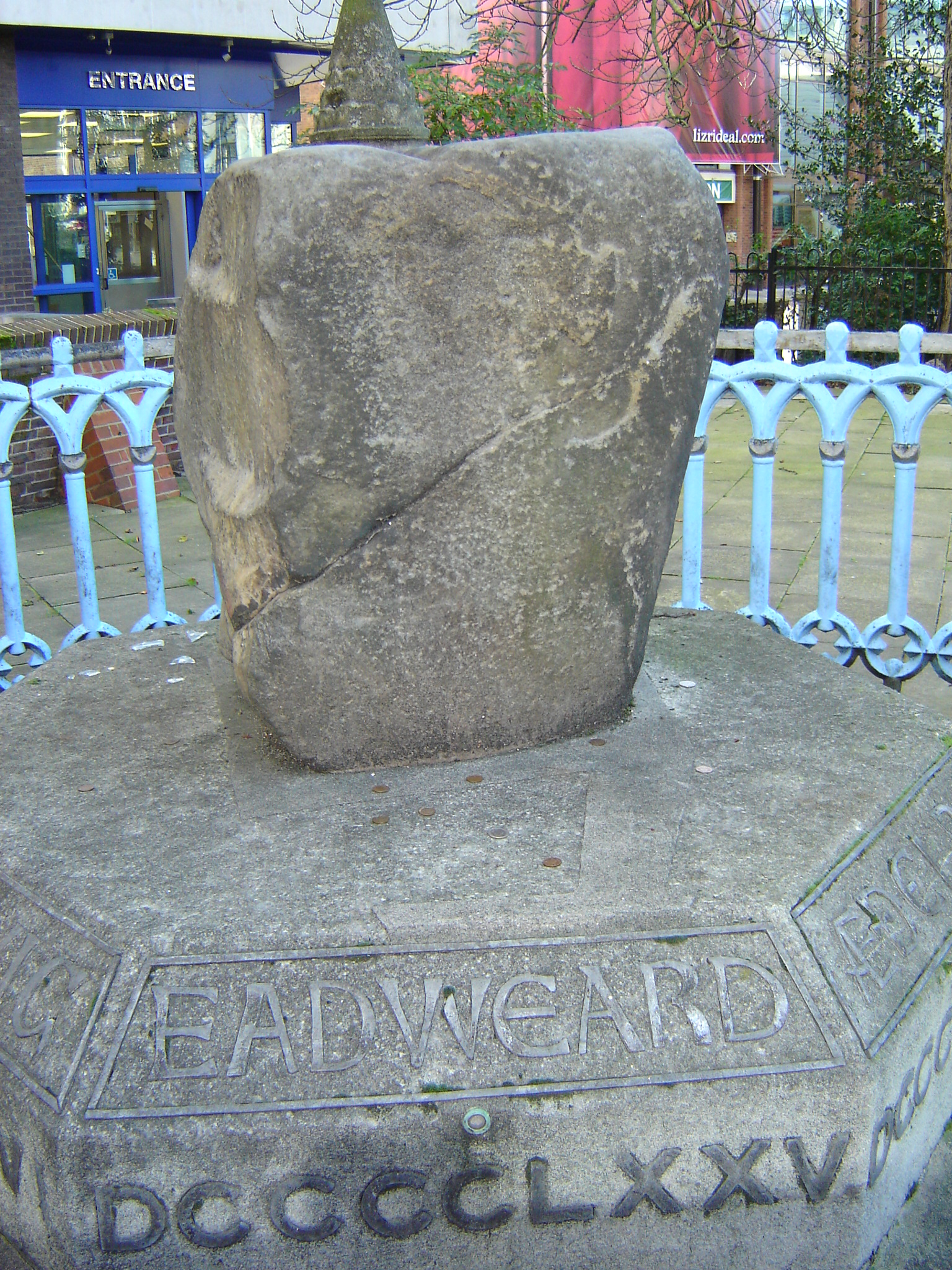 Saxon Coronation Stone in Kingston upon Thames showing the name of one of the Kings crowned there Edward.